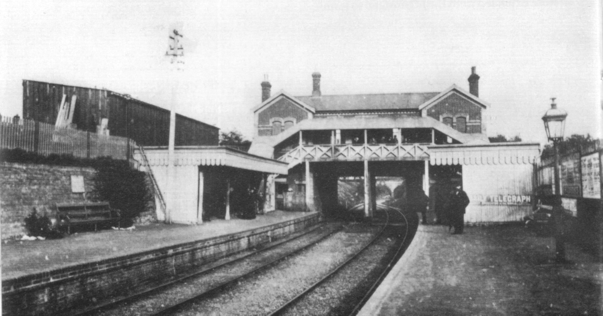 2nd East Grinstead railway station, West Sussex